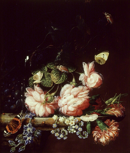 Roses with butterflies on a stone slab.label QS:Len,"Roses with butterflies on a stone slab." label QS:Lnl,"Rozen met vlinders op een stenen tafelblad."